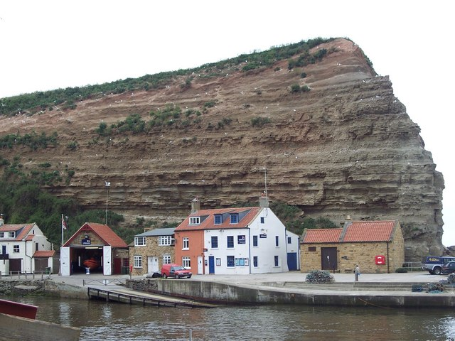 Staithes Lifeboat Station The RNLI have an inshore rescue boat stationed in Staithes.